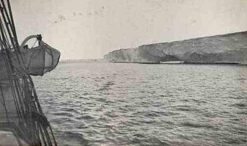 This photograph was taken by Frank Hurley during the Imperial Trans-Antarctic Expedition and published in the United States in Ernest Shackleton's book, South, in 1919.